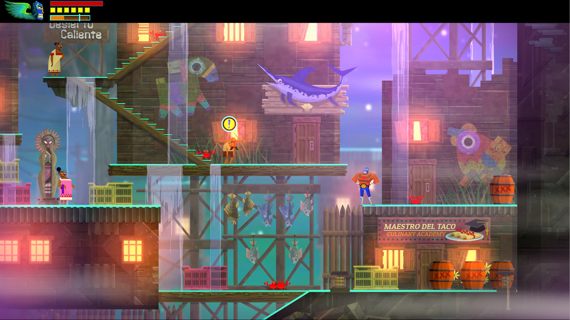 Screenshot from Guacamelee!